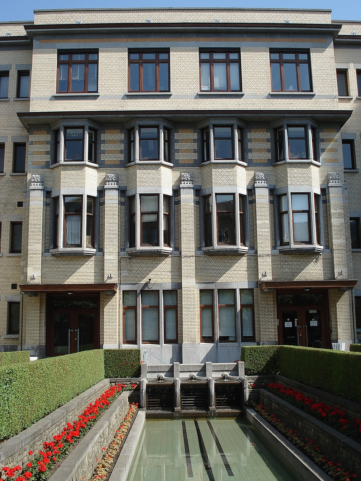 Antwerp, Belgium. Institute of Tropical Medicine as seen from Kronenburgstraat.